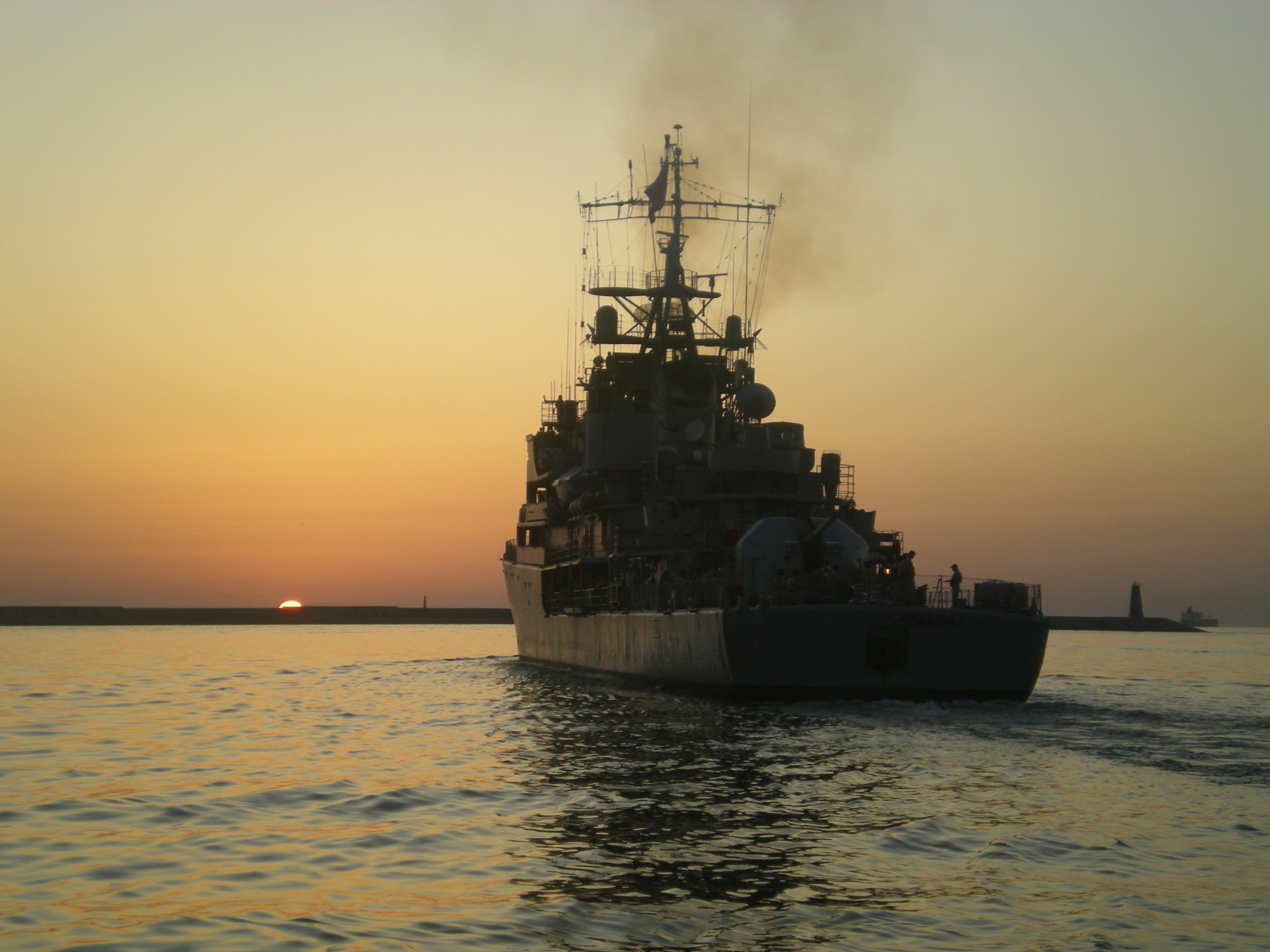 Cezayirli Gazi Hasan Paşa class training ship leaving Bizerte for Split on July 28, 2009. (Dağhan Öymen & Ahmet İzgin, ADEIII, Pusula. Vol. 65.)